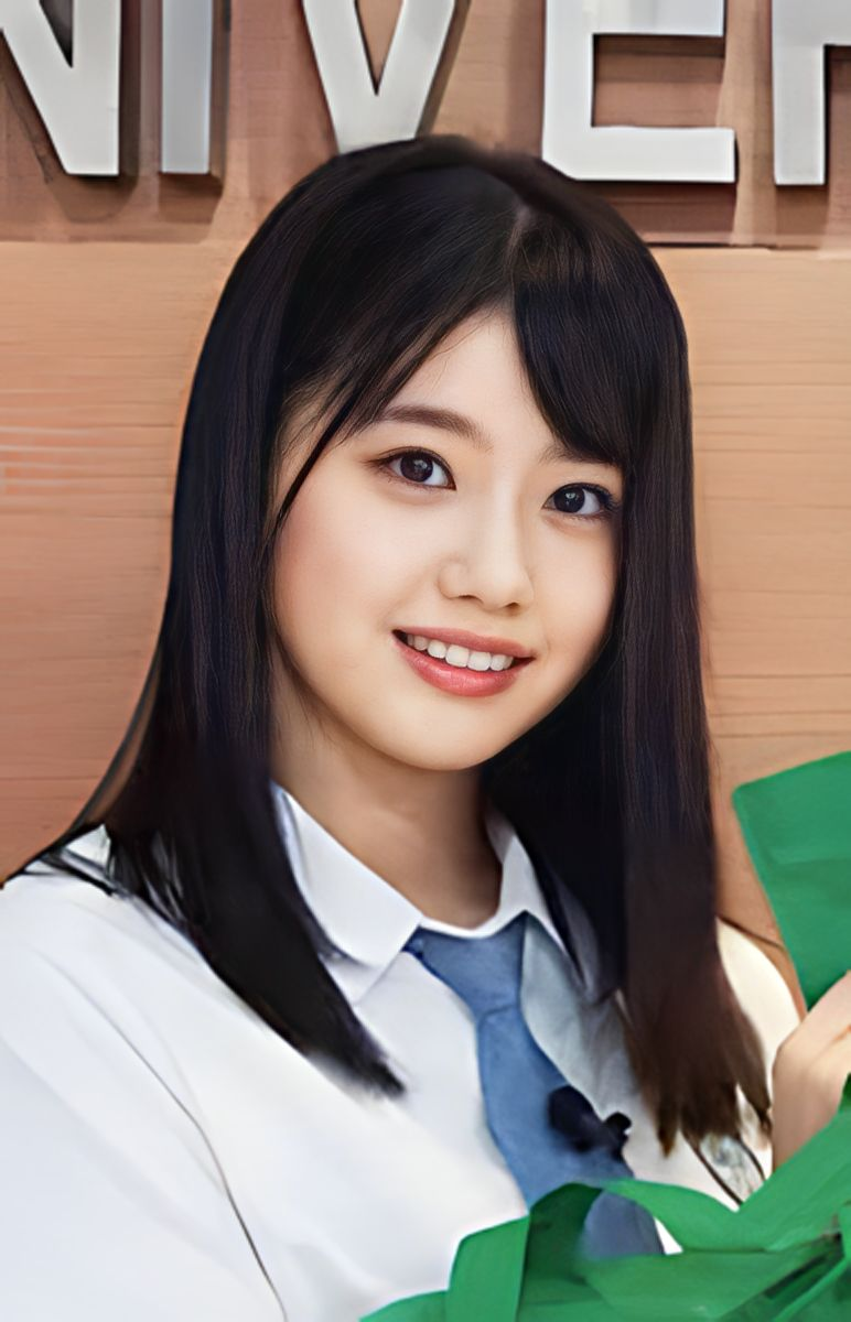 Chiho Ishida and Yumiko Takino visit Universitas Darma Persada, Jakarta